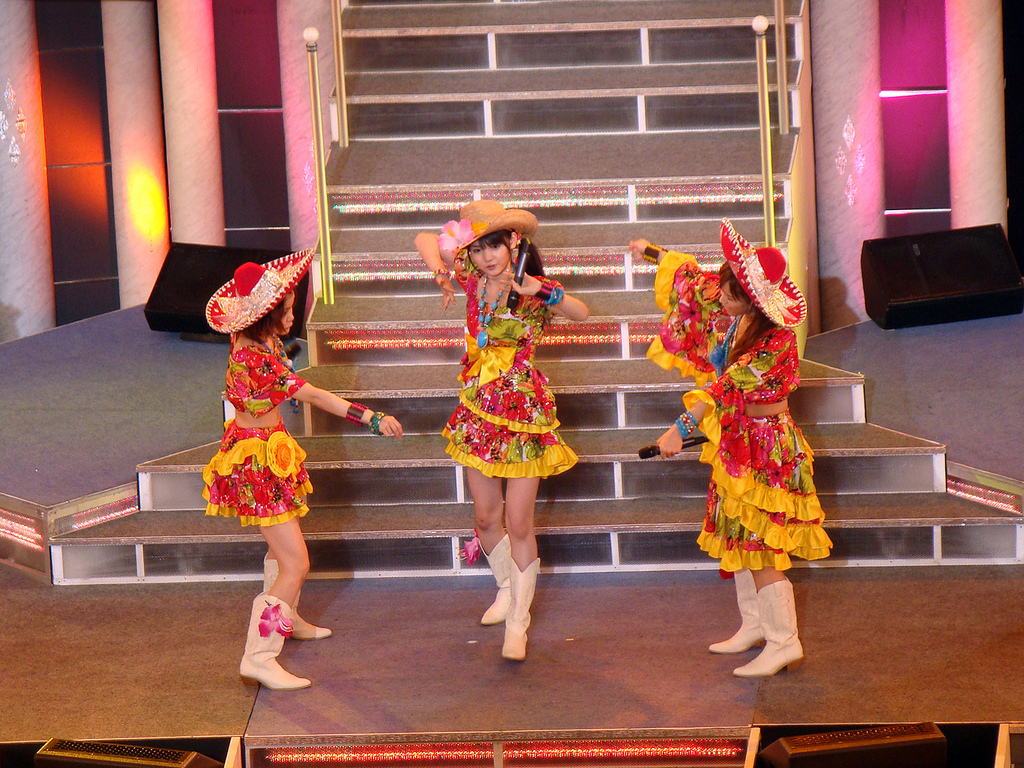 Aika Mitsui (left), Sayumi Michishige (center), and Eri Kamei (right) of Morning Musume during the group's Platinum 9 Tour 2009 at Nakano Sun Plaza, Tokyo